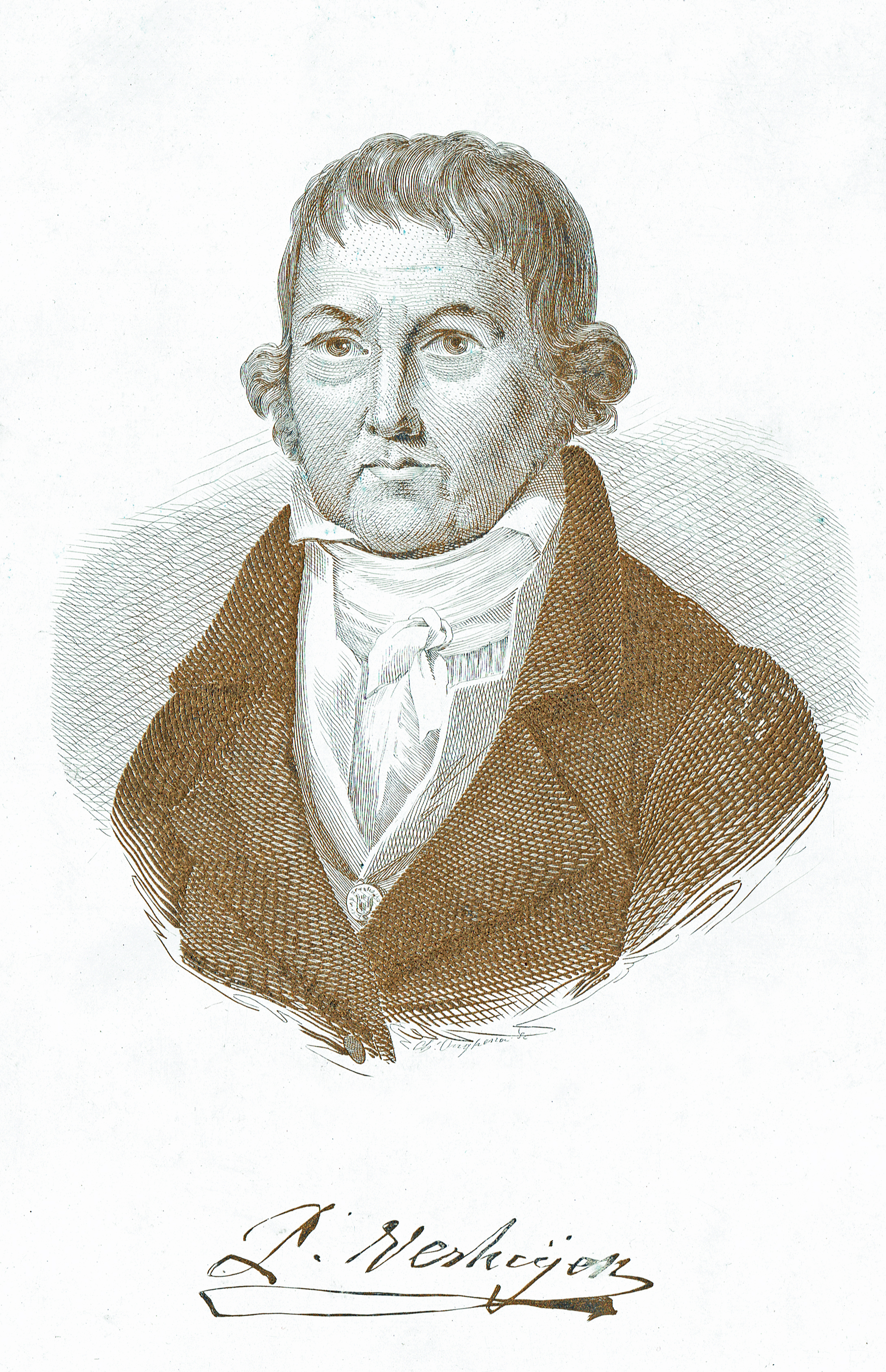 Portrait of Flemish composer Pieter Emmanuel Verheyen (Ghent, 1747-1819), engraving by Charles Onghena (Ghent, 1806-1886)